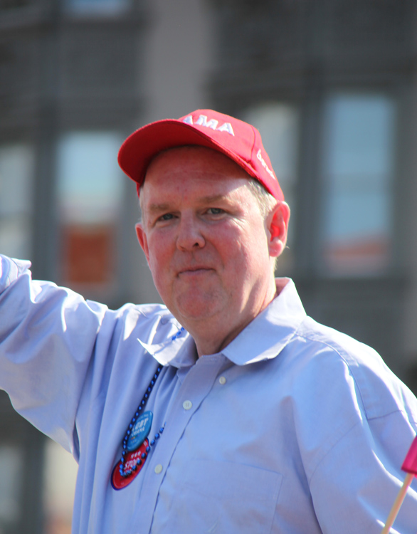 D.C. Council members Tommy Wells waves to the crowd during the parade. Wells, a Democrat, is likely to challenge Democratic Mayor Vincent Gray in 2014. At the Capital Pride parade near Dupont Circle in Washington, D.C., in the United States on June 9, 2012.